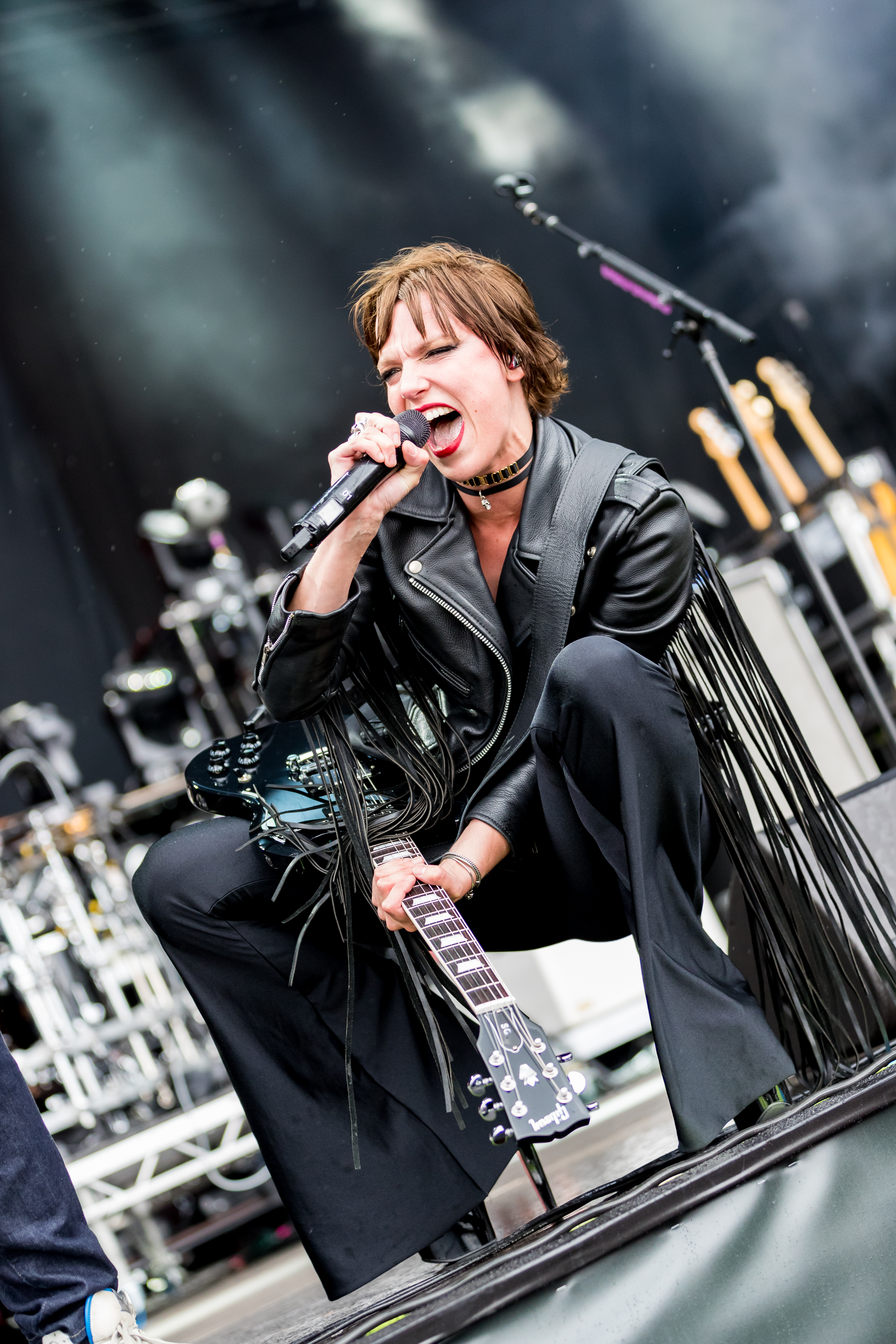 Halestorm during Rock am Ring ( at Nürburgring, Rheinland-Pfalz, Germany on 2019-06-07, Photo: Sven Mandel Promotion by Live Nation (